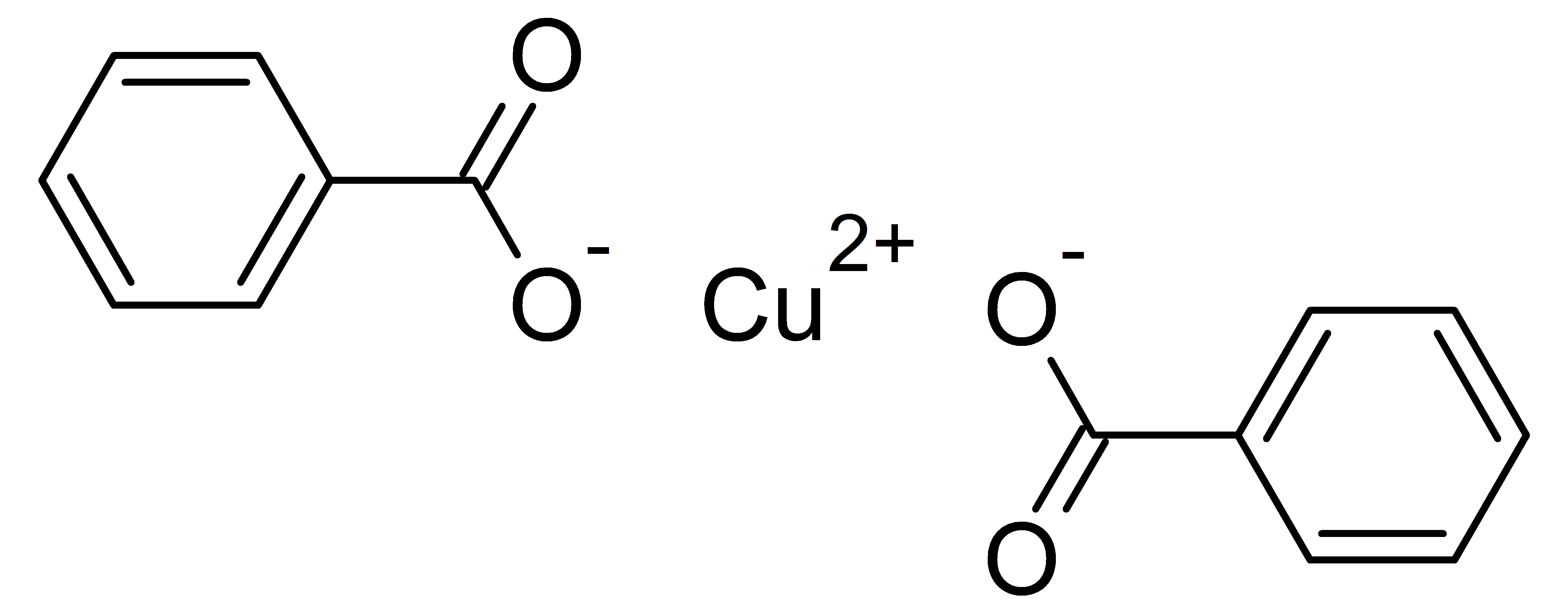 2D model of Copper benzoate.